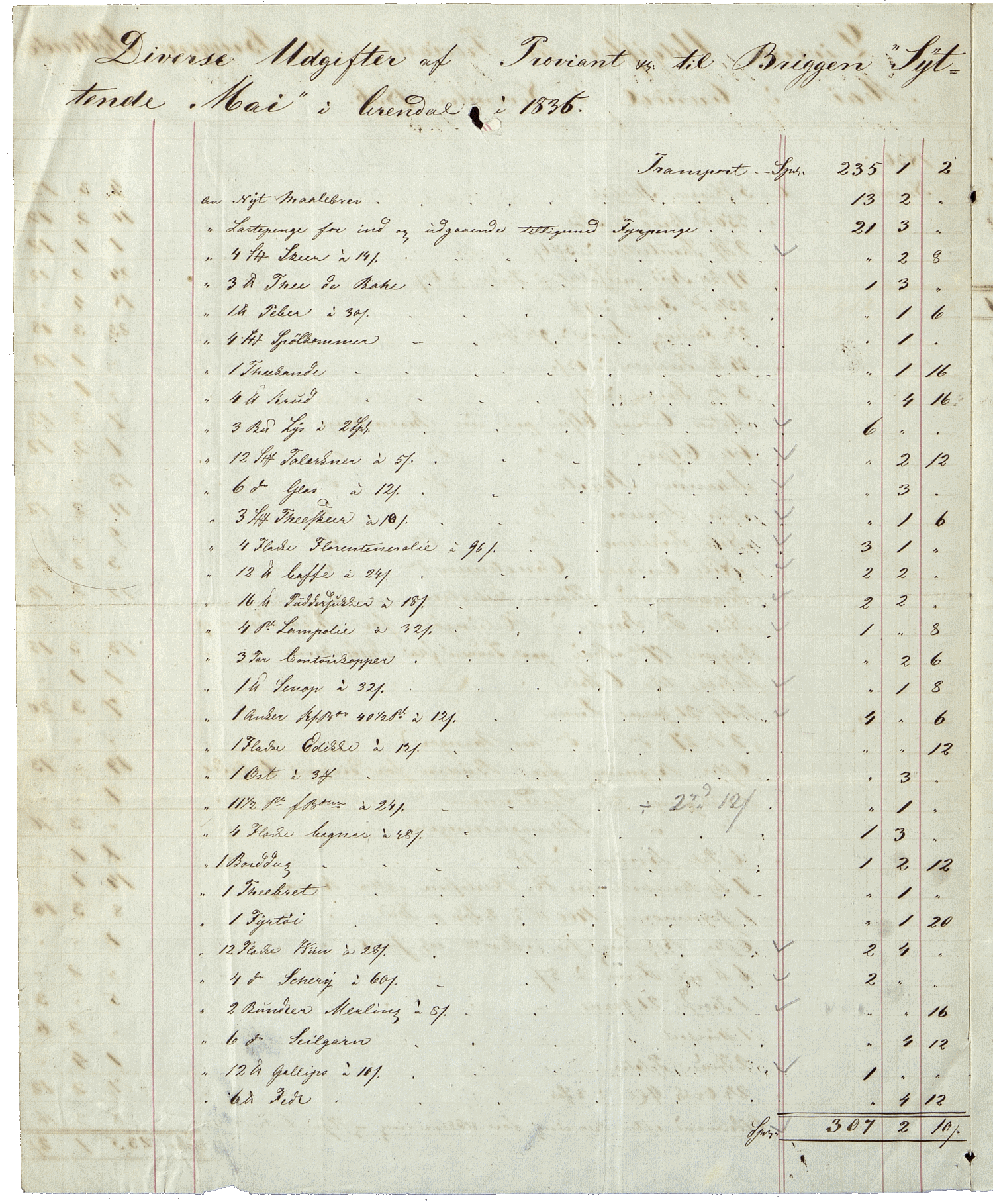 Handwritten accounting